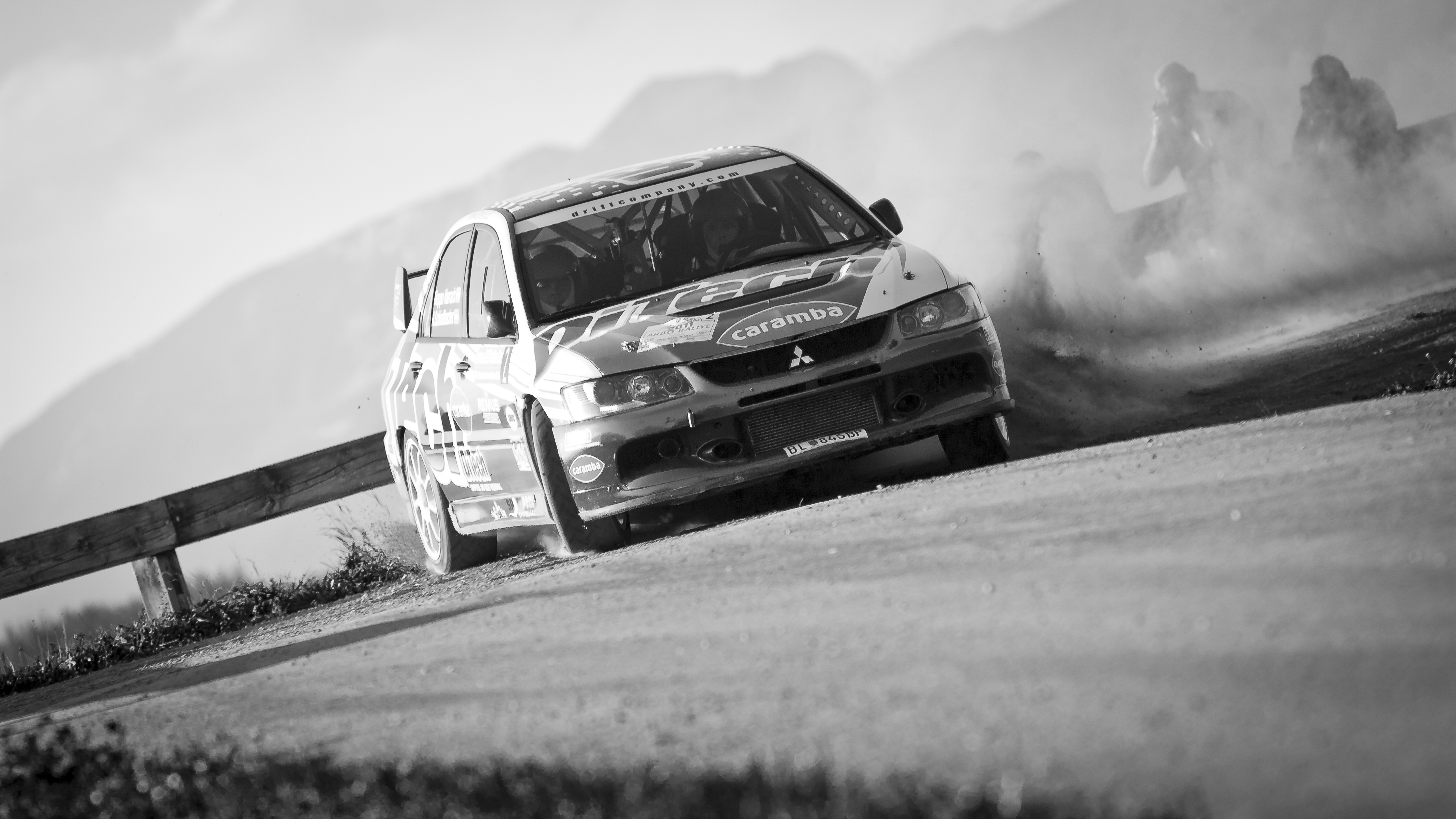 Beppo Harrach at the ARBÖ Rally in Styria